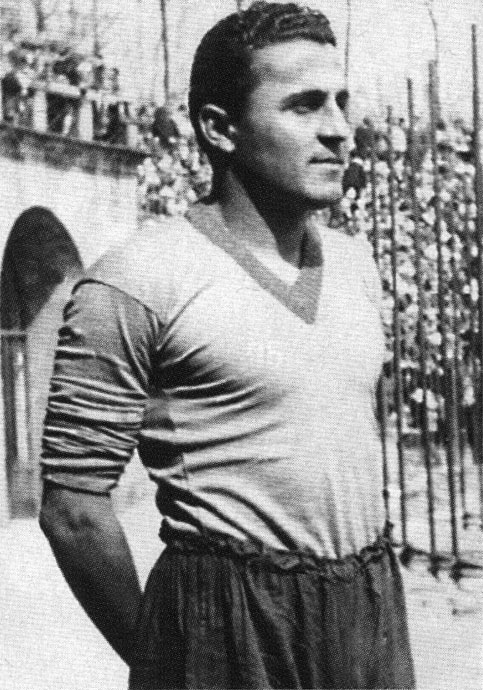 Italian footballer Maino Neri with Modena F.C. in the 1946–47 season.